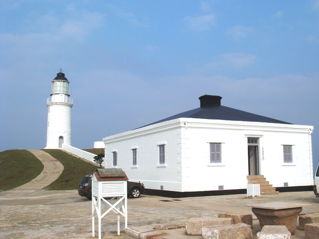 Dongquan Lighthouse